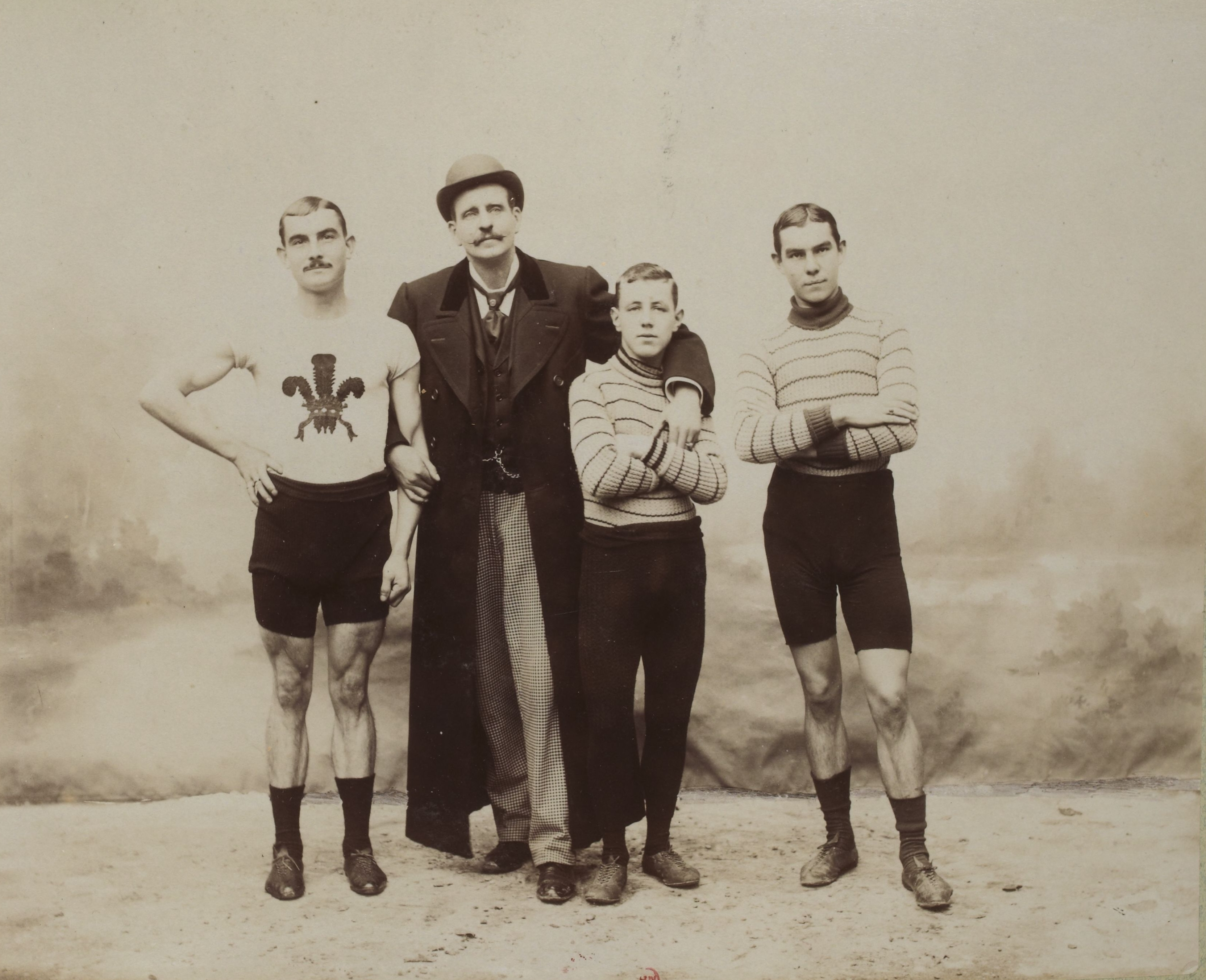 [Collection Jules Beau. Photographie sportive] : T. 1. Années 1894 et 1895 / Jules Beau